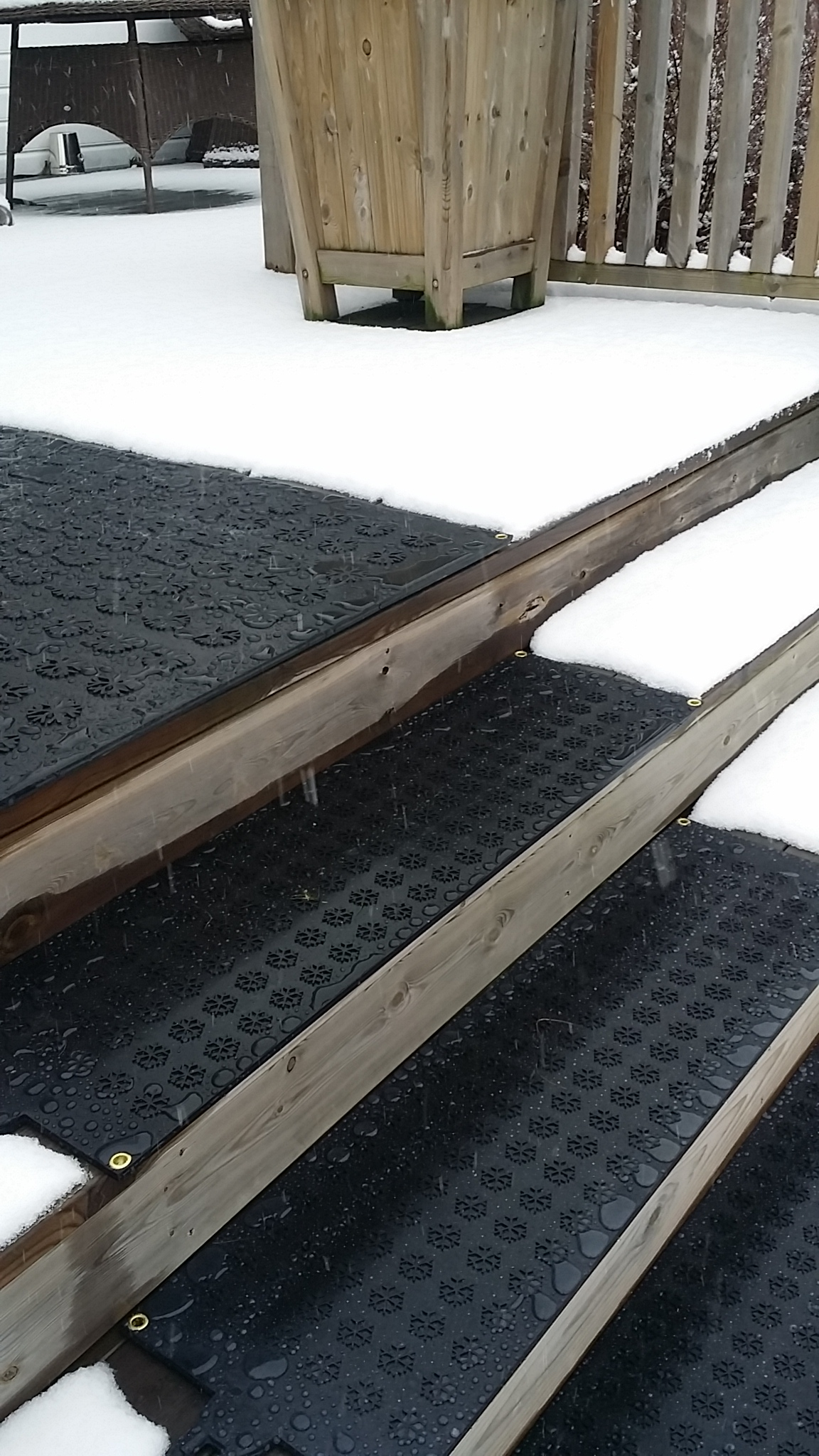 Illustration of heat mats